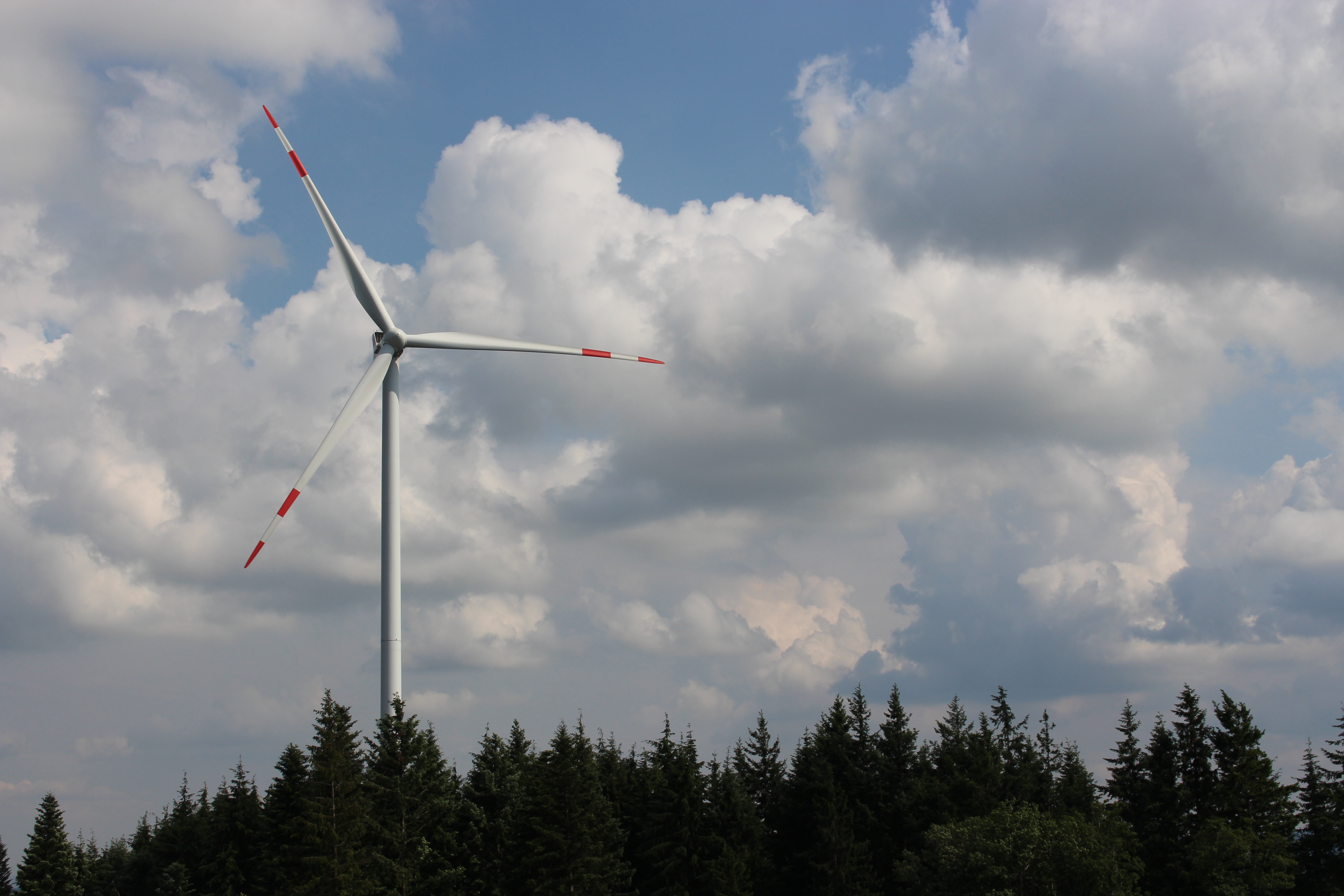 Windfarm Hesselbach near to Hesselbach.